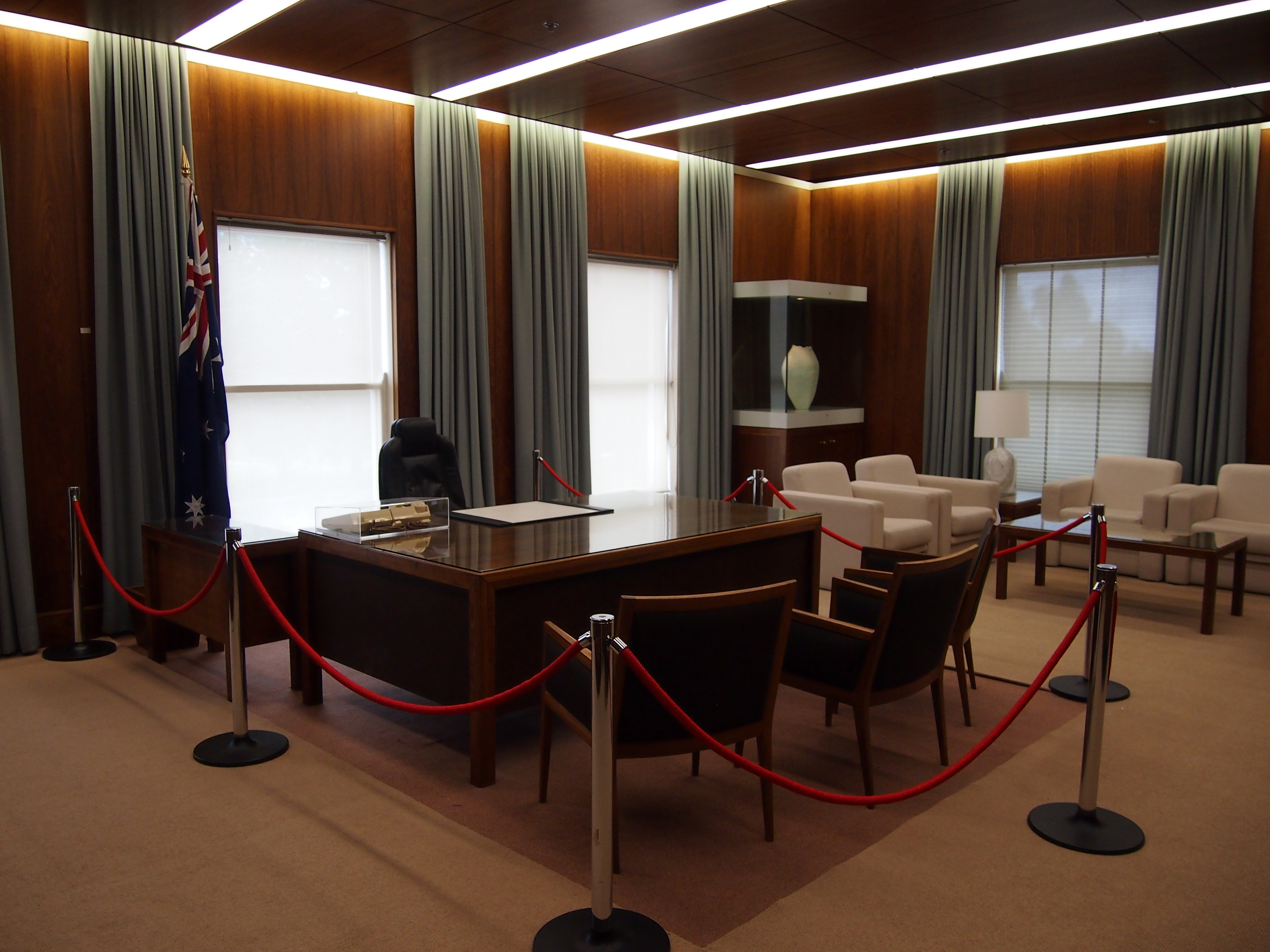 The Prime Minister's office at Old Parliament House. The office has been preserved as it appeared during the prime ministership of Bob Hawke.